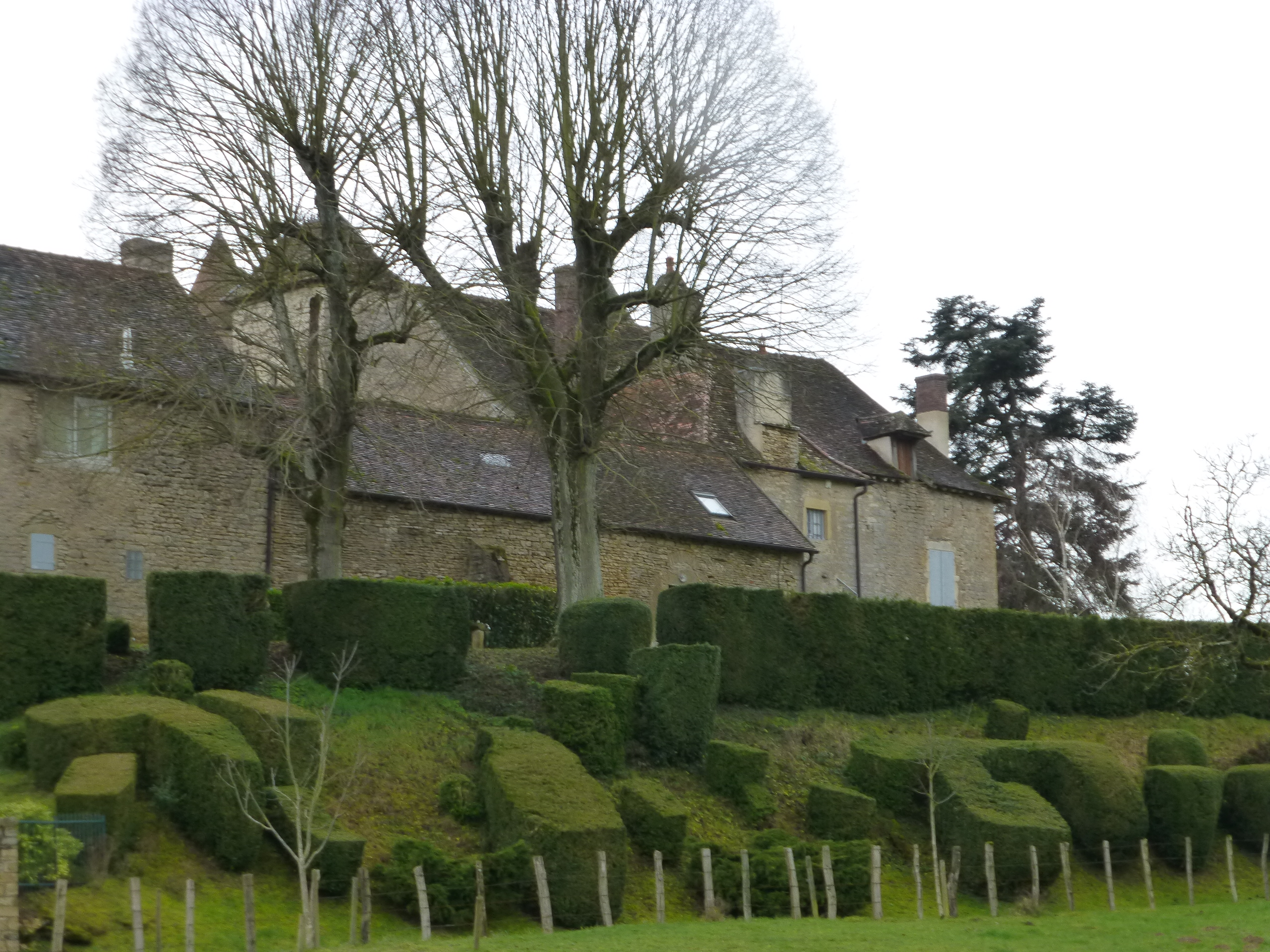 Savianges castle (north view)